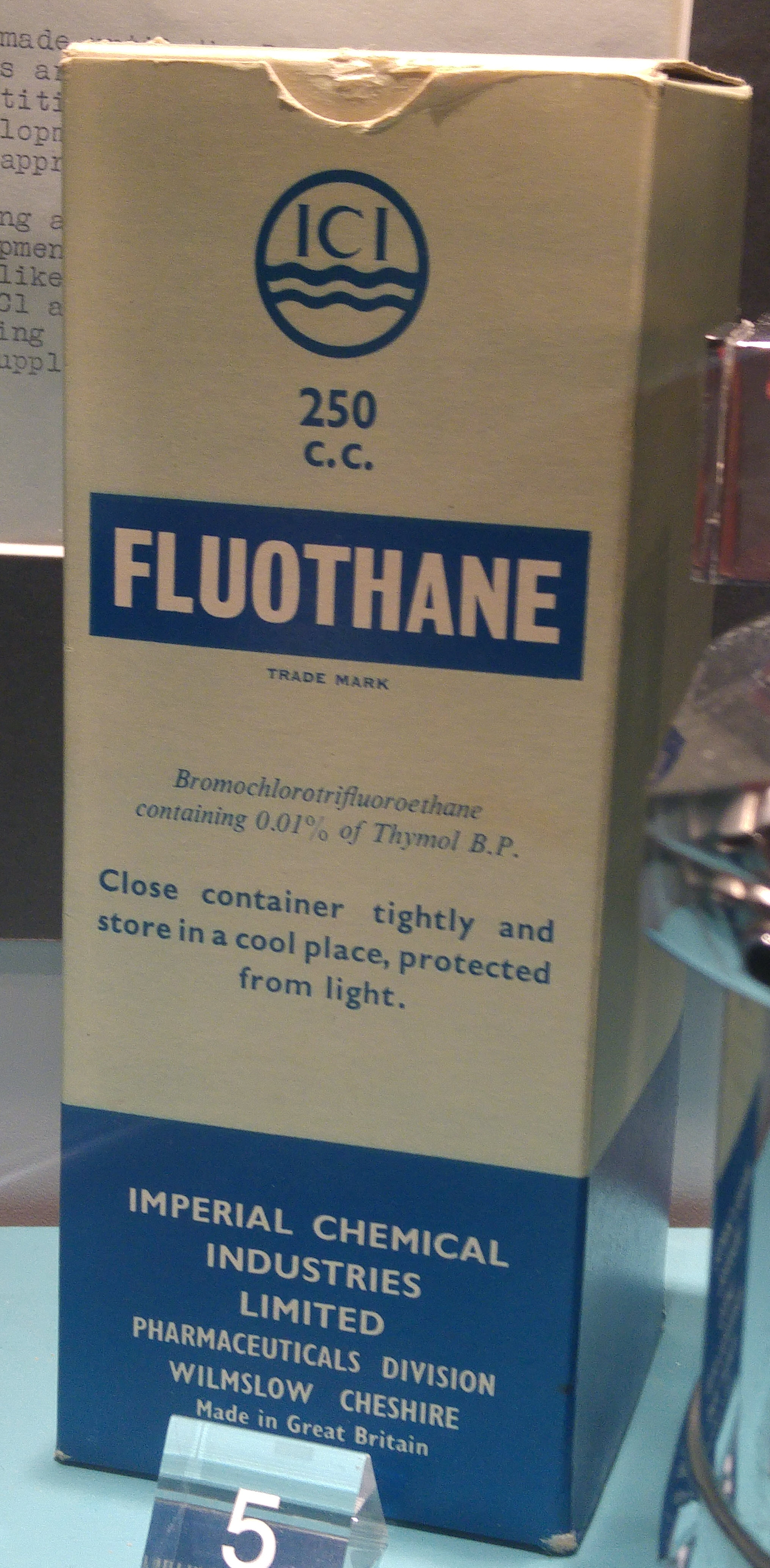 Packaging of ICI Fluothane (their trade name for halothane)